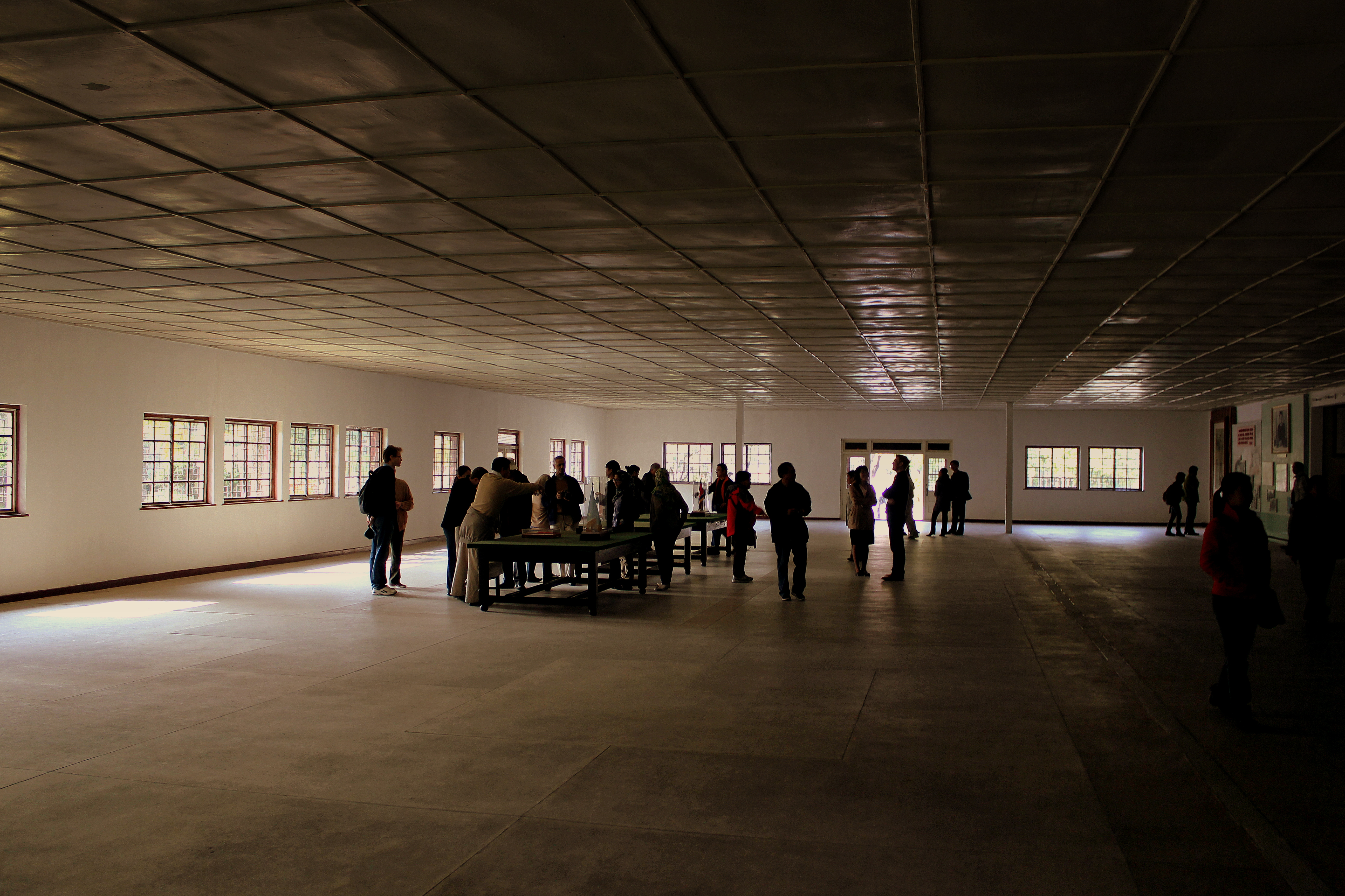 INSIDE ONE OF THE DPR KOREA NEGOTIATION BUILDINGS AT PANMUNJOM VILLAGE IN THE DMZ DPR KOREA OCT 2012